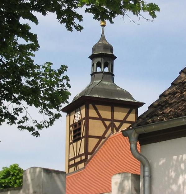 Stonechurch in the village Schwanebeck, built probably in 14th century. Schwanebeck is an incorporated part of the town Belzig in Brandenburg, Germany.